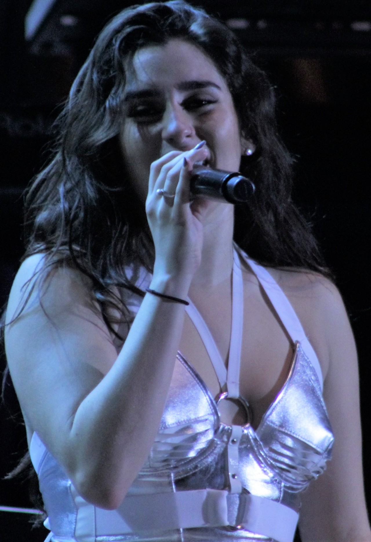 Lauren Jauregui